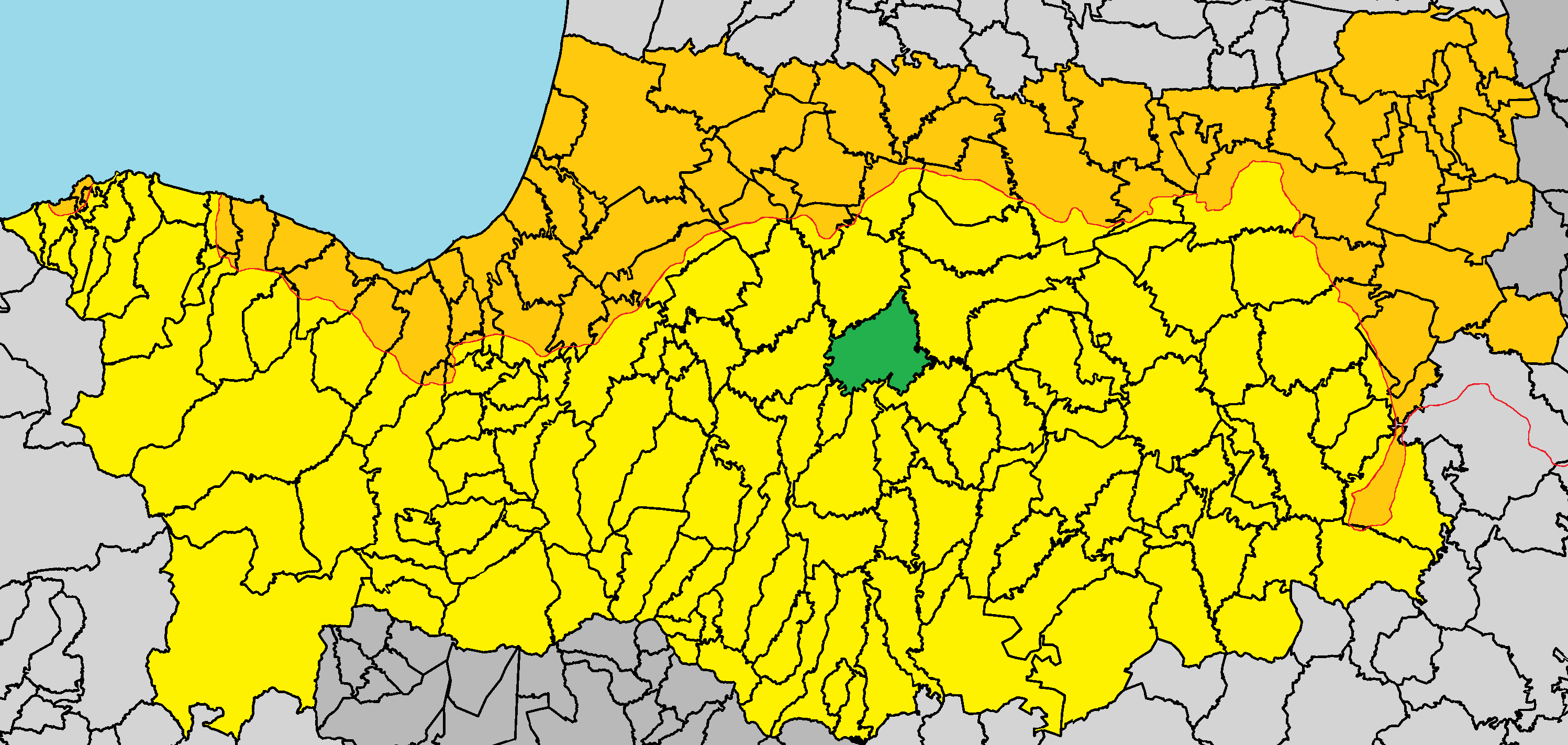 Meniko in Nicosia District.